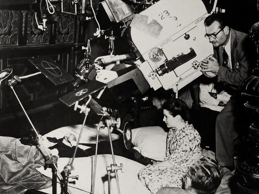 L. to R. : Dean Stockwell, Margaret O'Brien, and Ray June (cinematographer) on the set of the film The Secret Garden - publicity still